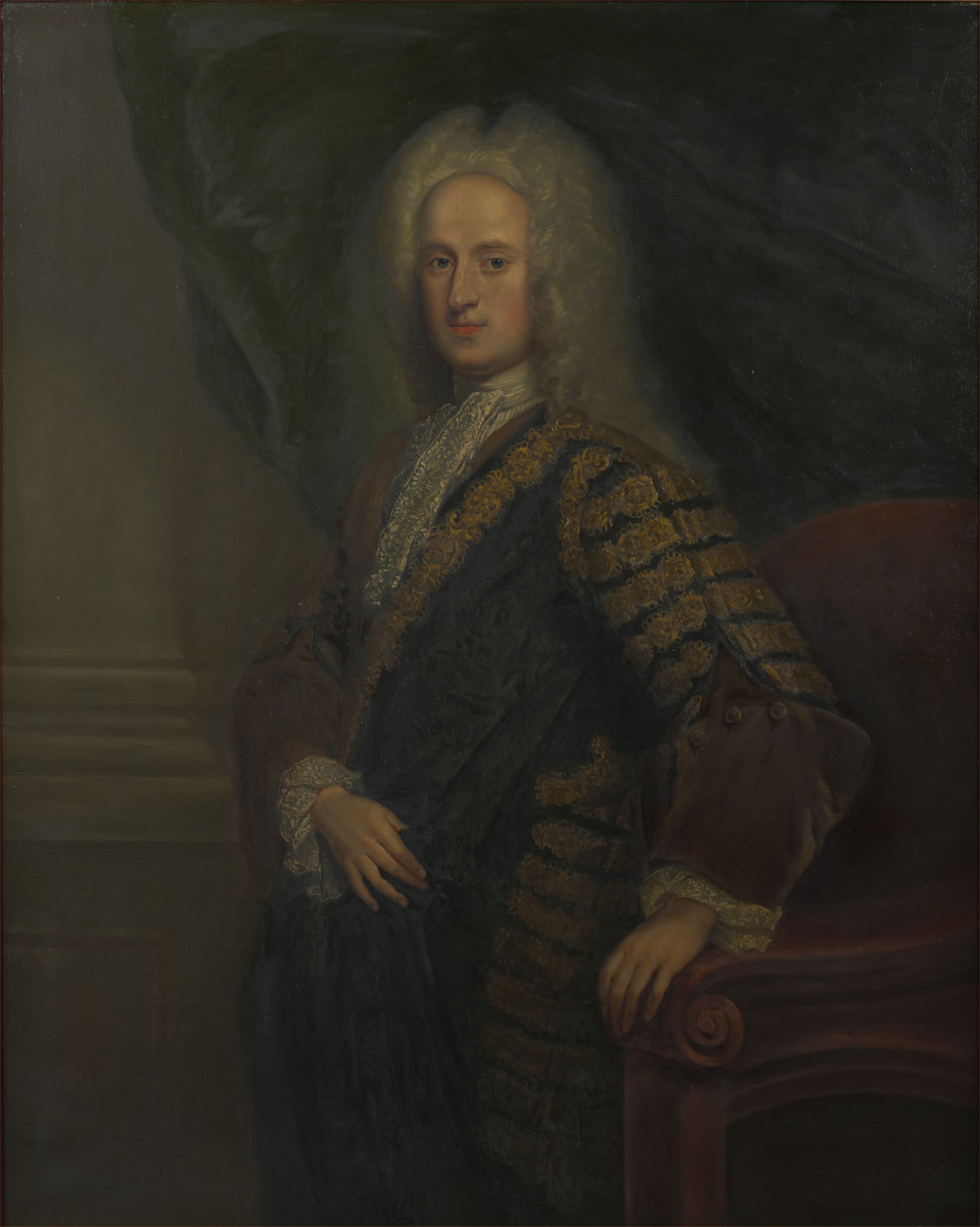 John Hay, politican, Secretary of State for Scotland 1742-6, Lord Justice General for Scotland 1761-2